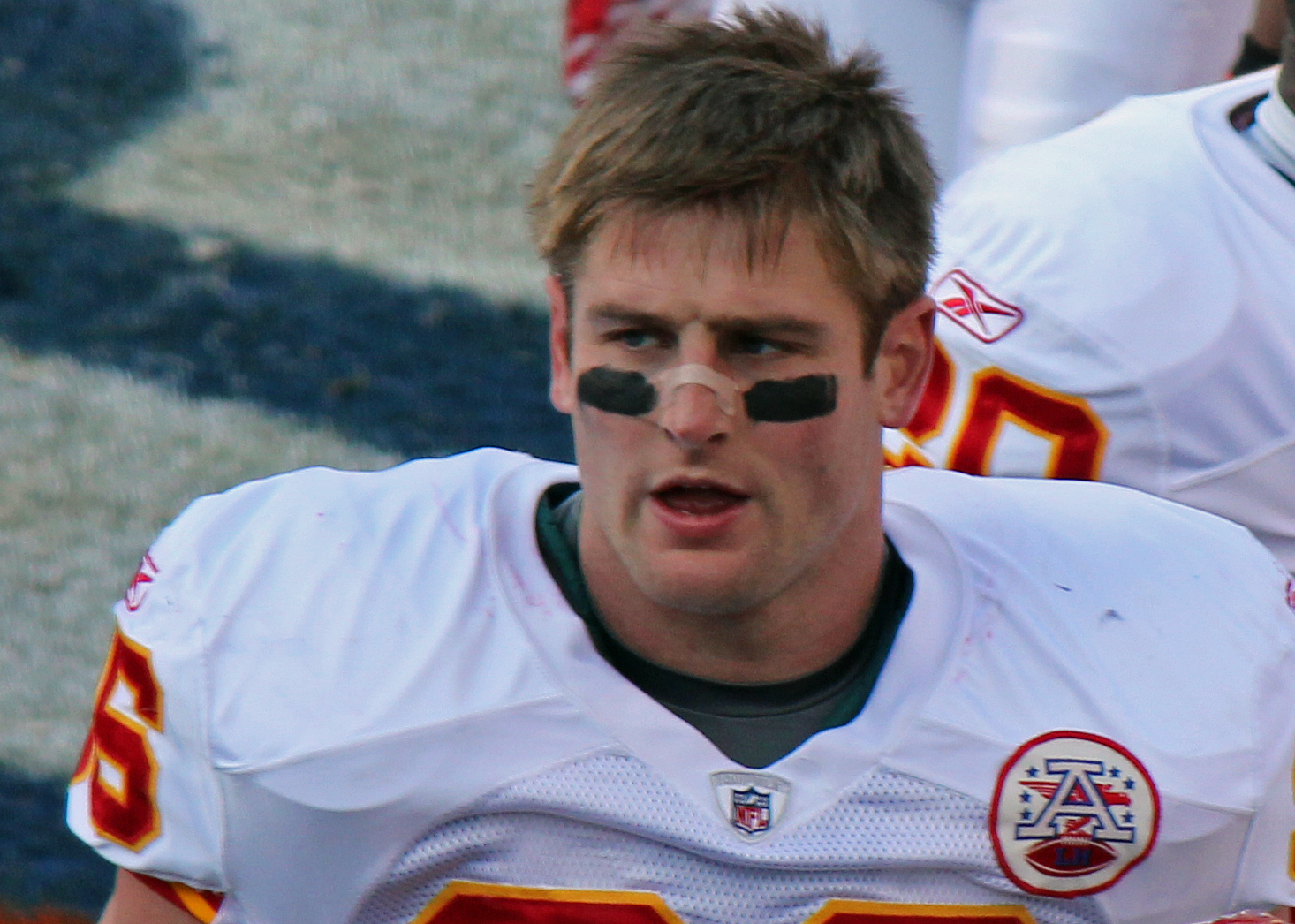 Andy Studebaker, a player on the National Football League.